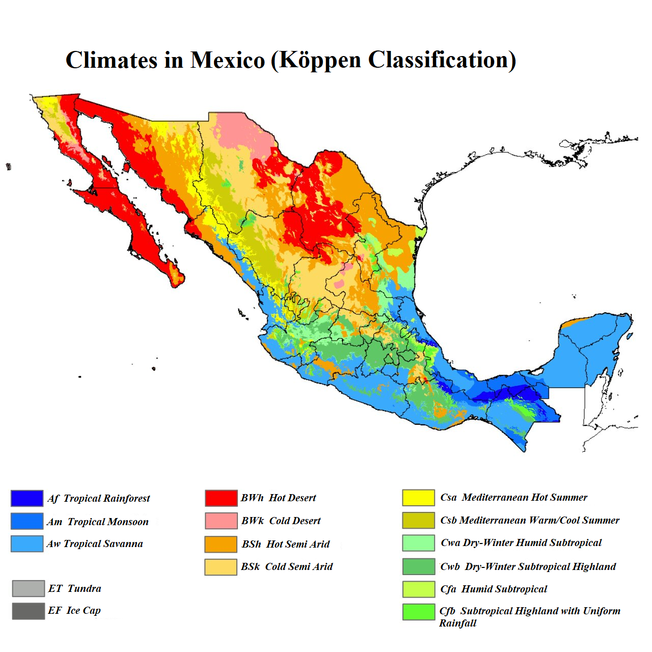 Mexico map of Köppen Climate Classification with state division